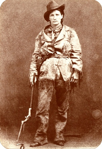 Calamity Jane with gun